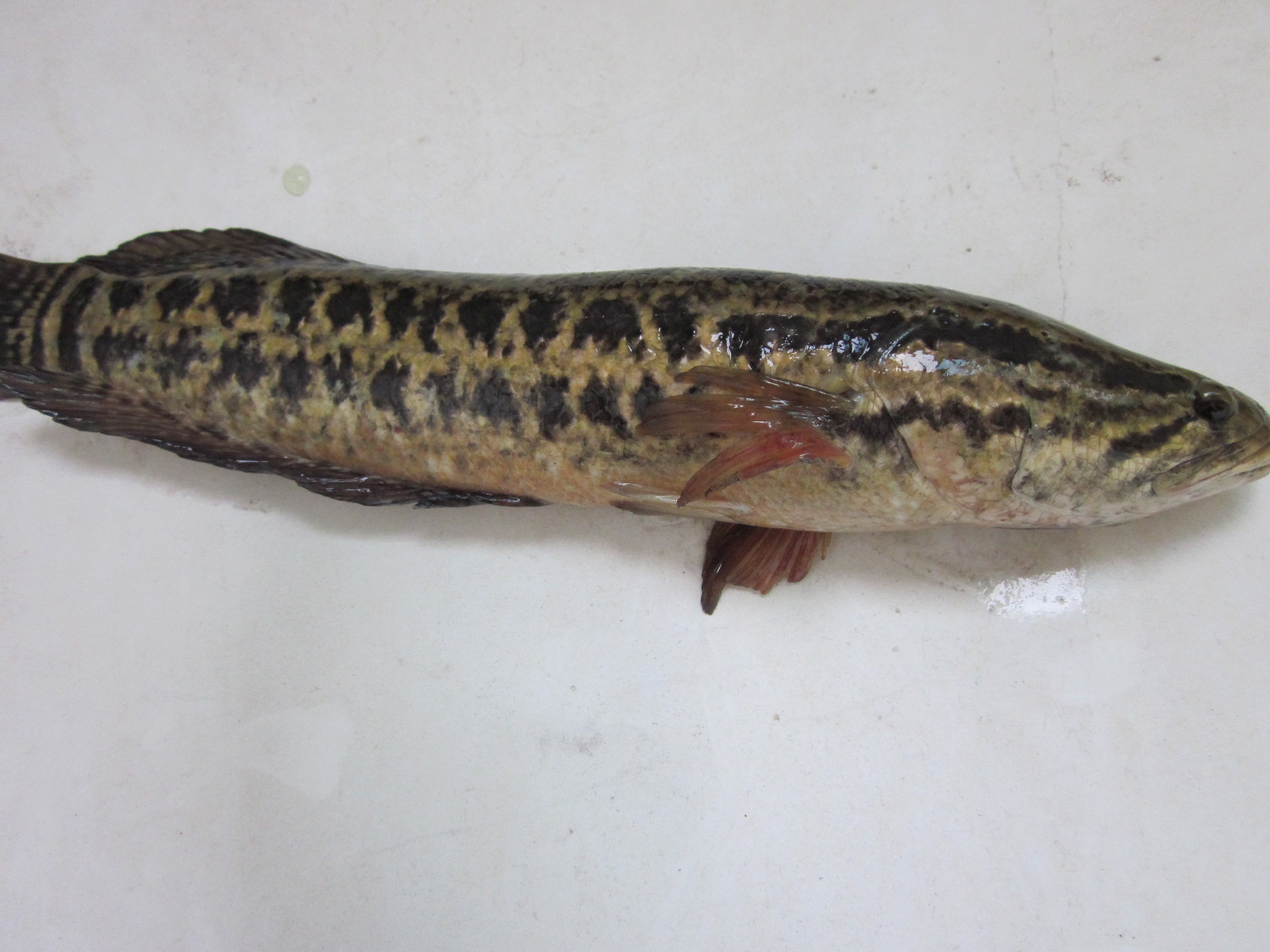 Channa argus